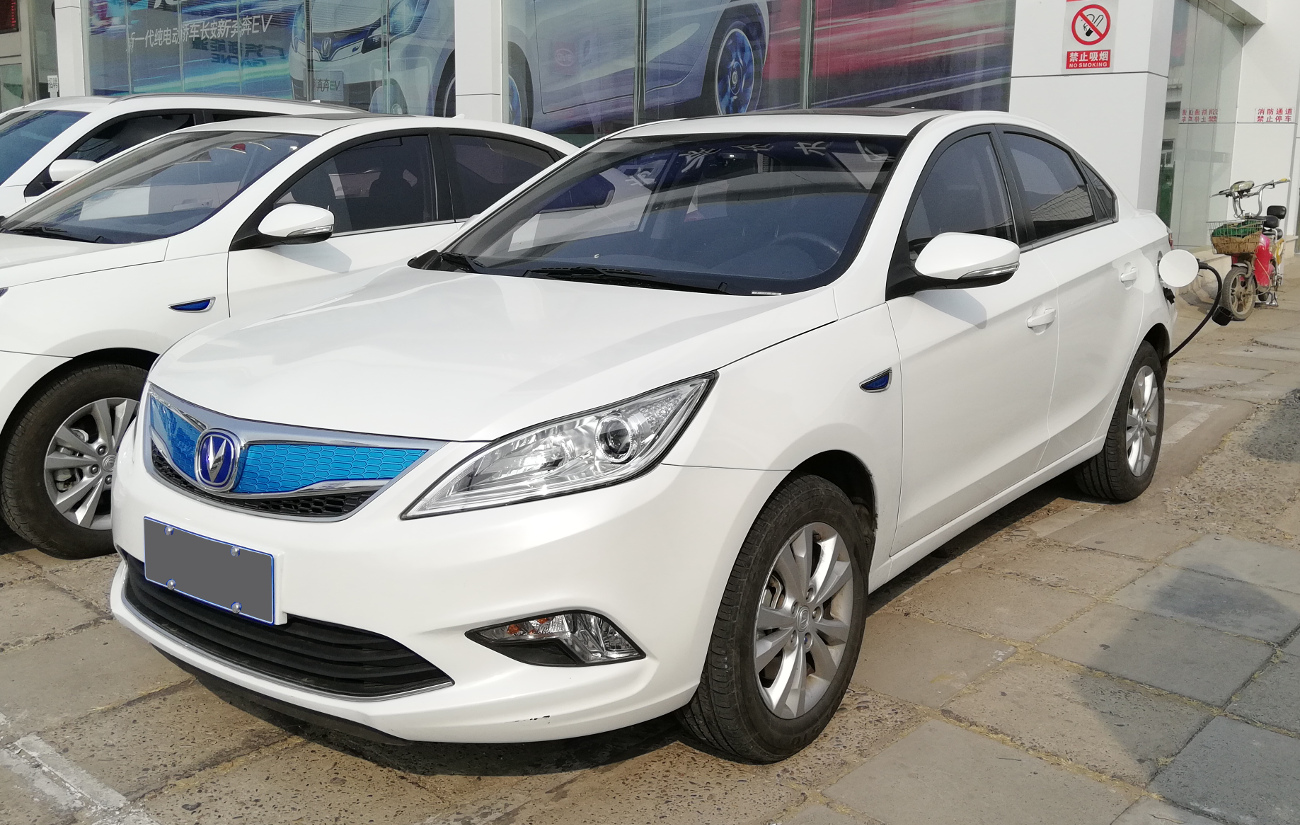 Chang'an Eado EV photographed in Beijing, China.